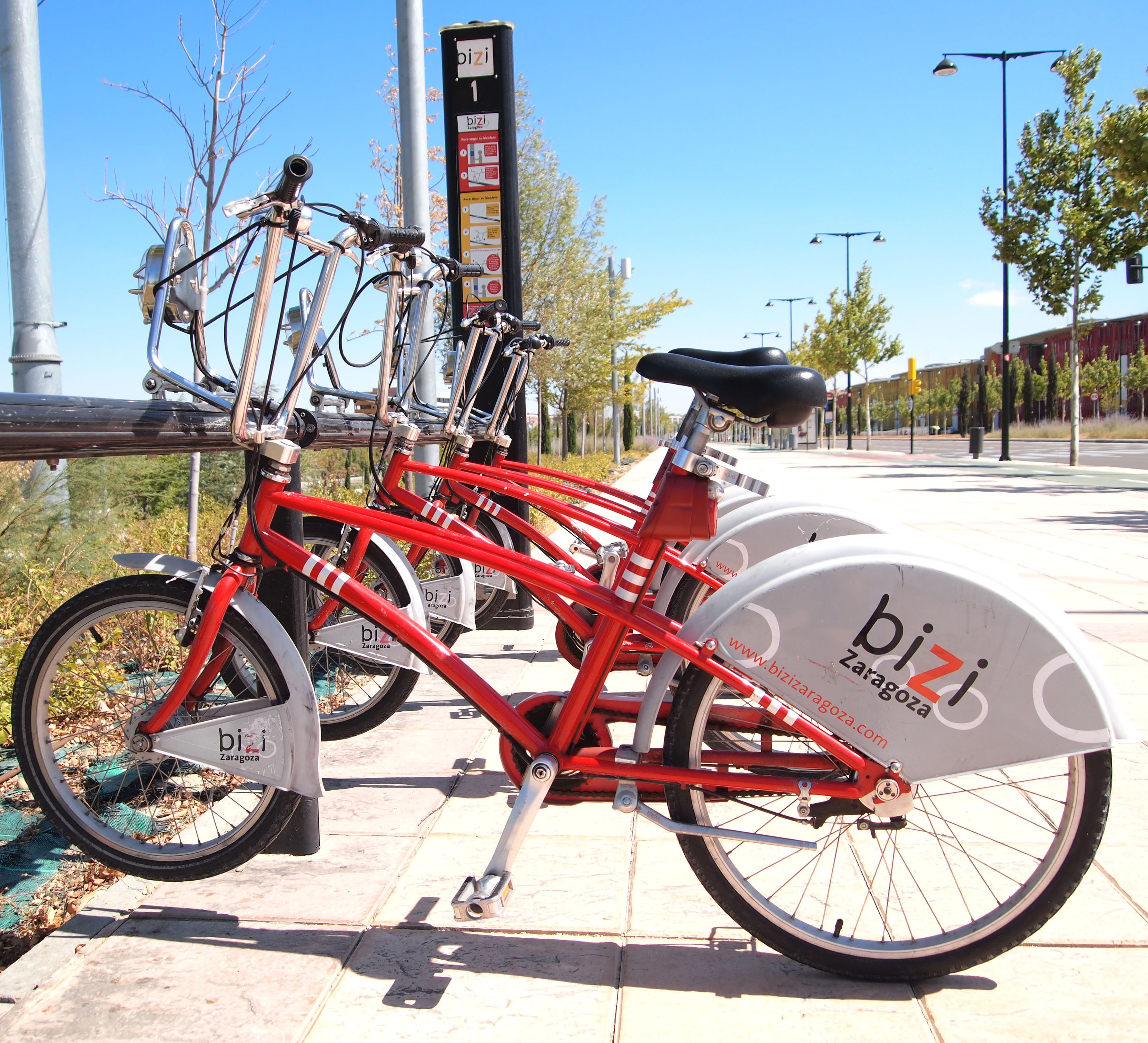 Bizi bicycles in Zaragoza. This photograph was taken with a Olympus E-PL1.